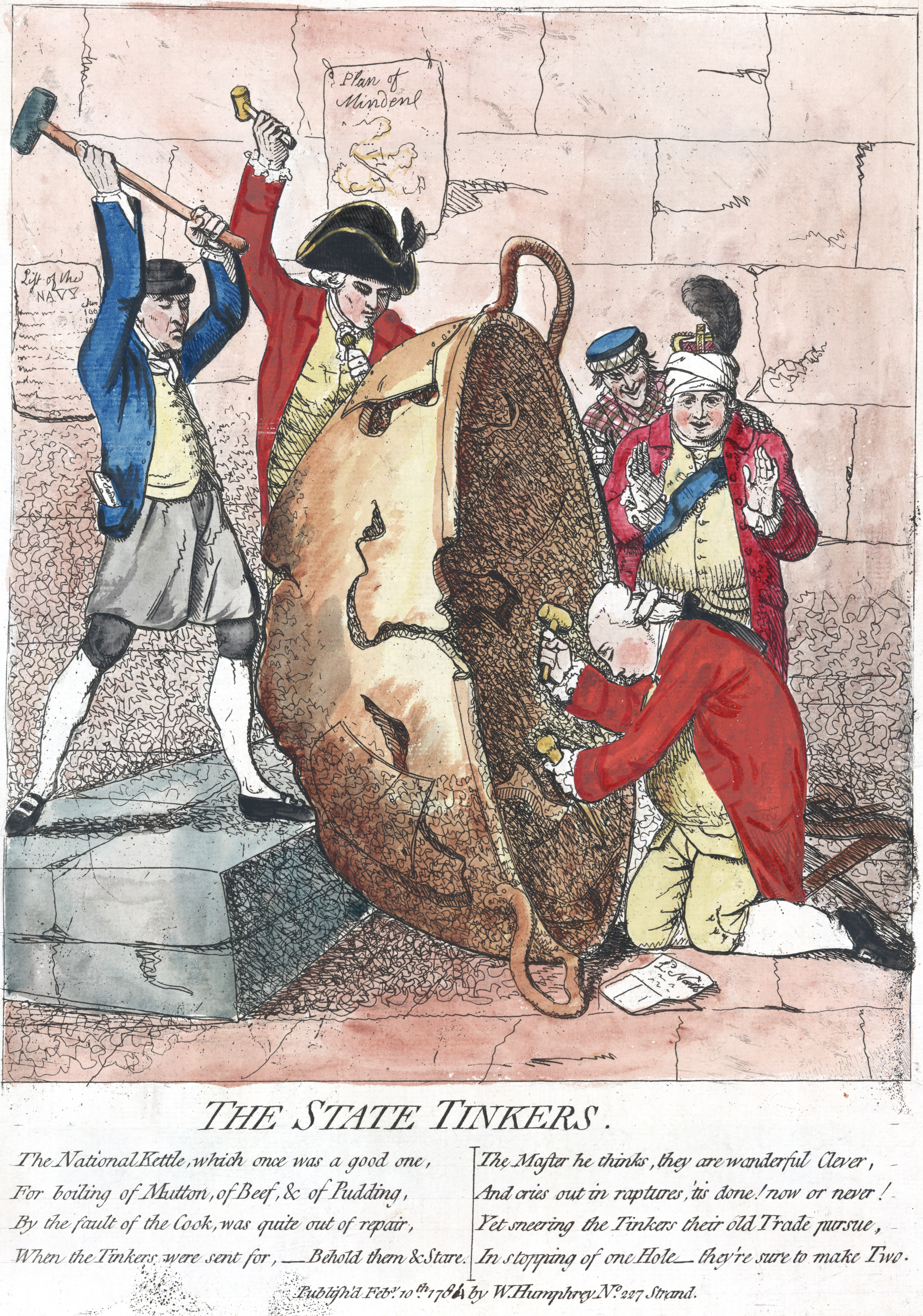 The State Tinkers SUMMARY: Three men breaking a large bowl which is cracked and patched. Lord North is shown chiselling inside the bowl, behind the bowl is Lord Sandwich, next to Lord Sandwich is a man identified as Lord George Germain. Behind Lord North stands George III whose hands are raised as if in surprise. On the wall behind are posted two documents labelled "List of the Navy" and "Plan of Minden". MEDIUM: 1 print : engraving, color. CREATED/PUBLISHED: Published Feb'y 10th 1780 by W. Humphrey, 1780.